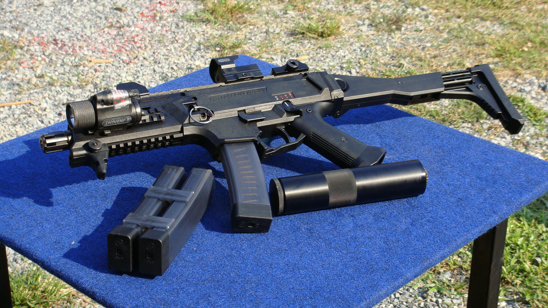 9mm Submachine gun CZ Scorpion EVO III